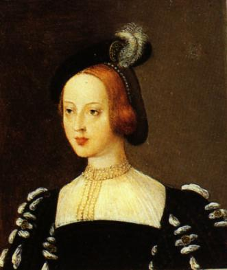 Beatrice of Portugal, duchess of Savoy